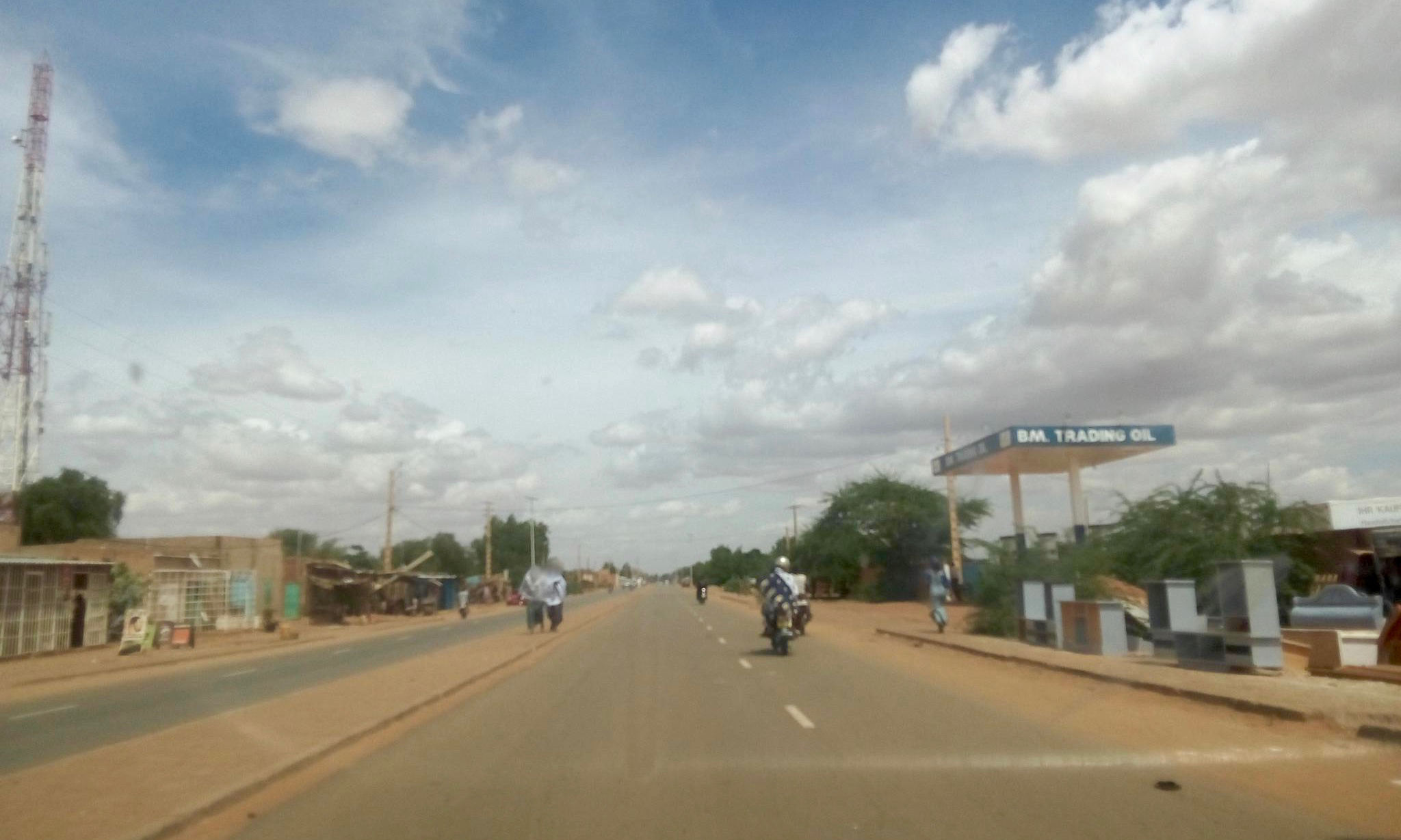 Main road in Losso Goungou, Niamey.